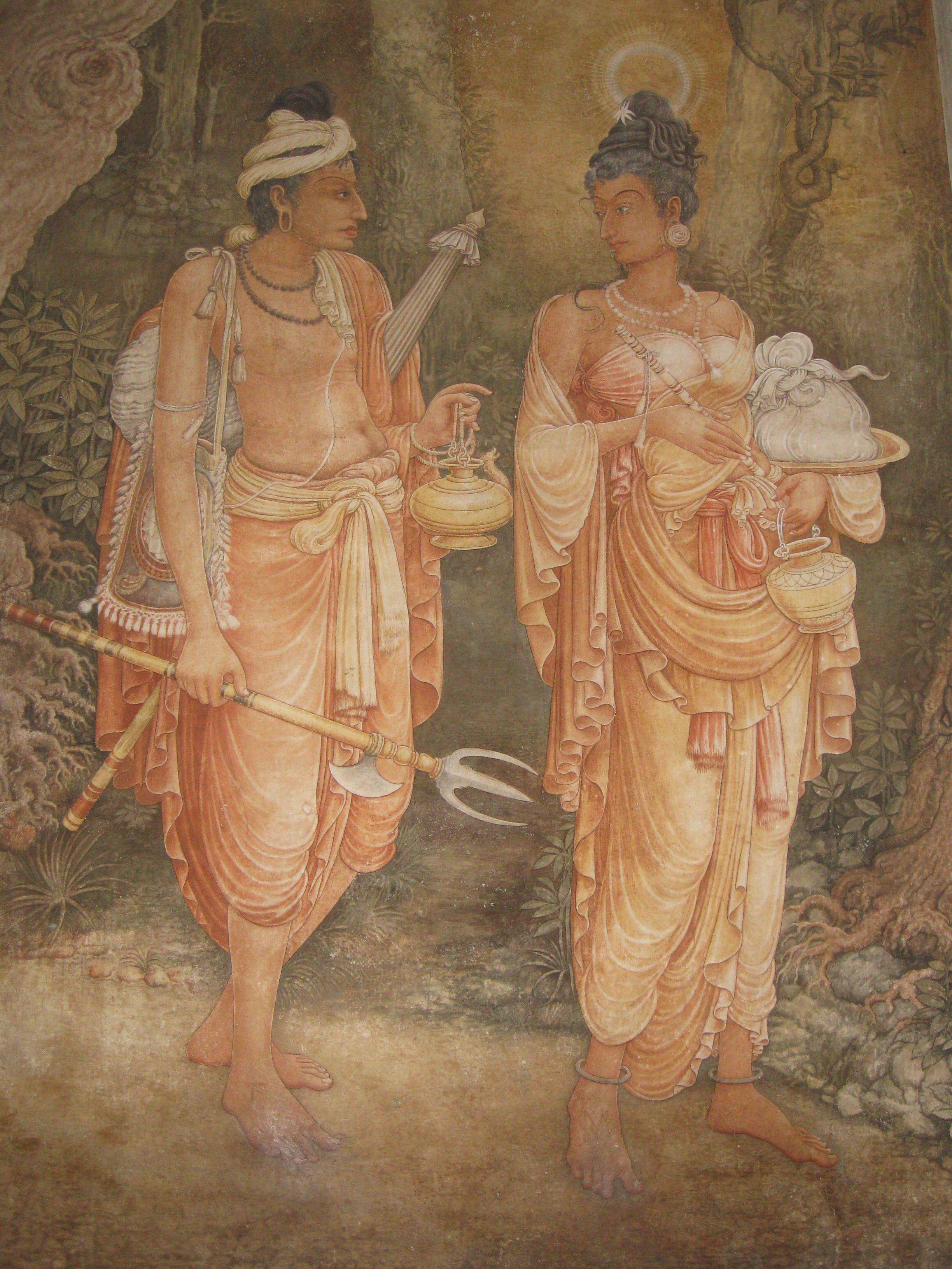 Photograph of Wall painting in a public premises at Kelaniya Raja Maha Vihara of Princess Hemamali and her husband